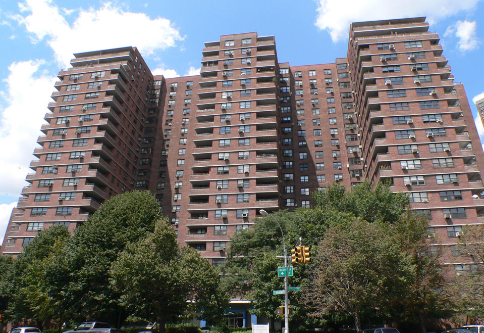 Seward Park tower at 264-266-268 East Broadway